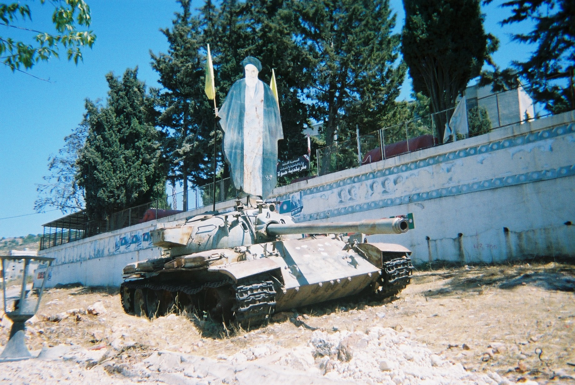 An abandoned Tiran-5 main battle tank in South Lebanon, now displaying a wooden display of late Ayatollah Khomeni.